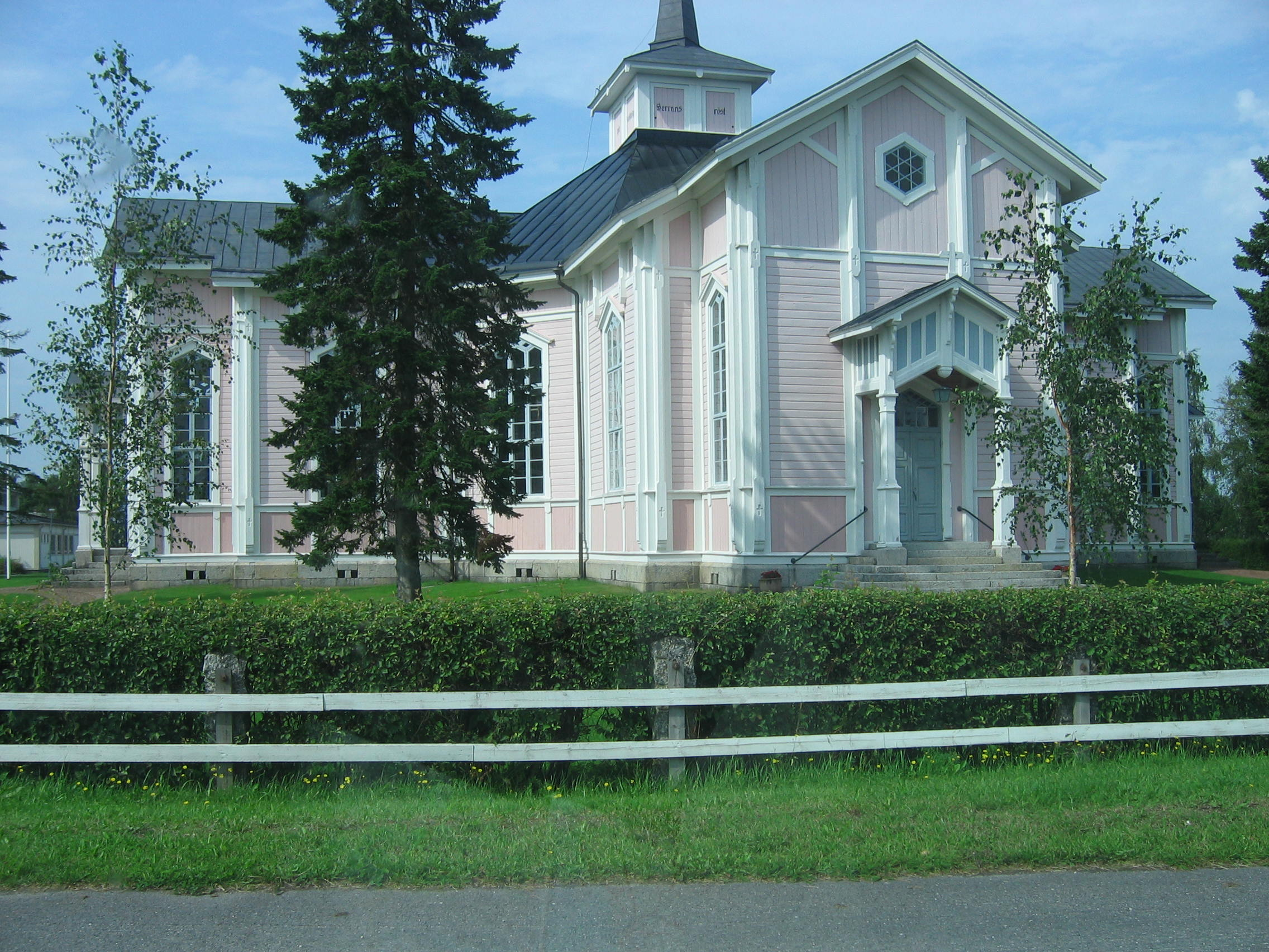 The Lutheran church of Övermark (Ylimarkku) in Närpes (Närpiö), Finland, in August 2007.